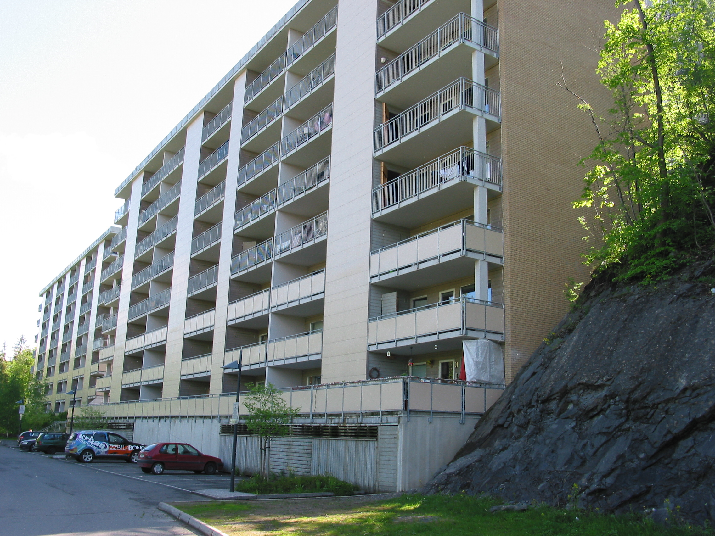 Building block in Skytterdalen, the northern of the two blocks.